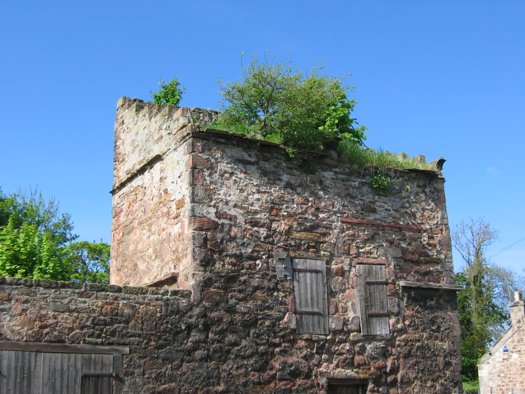 Redhouse Castle, East Lothian